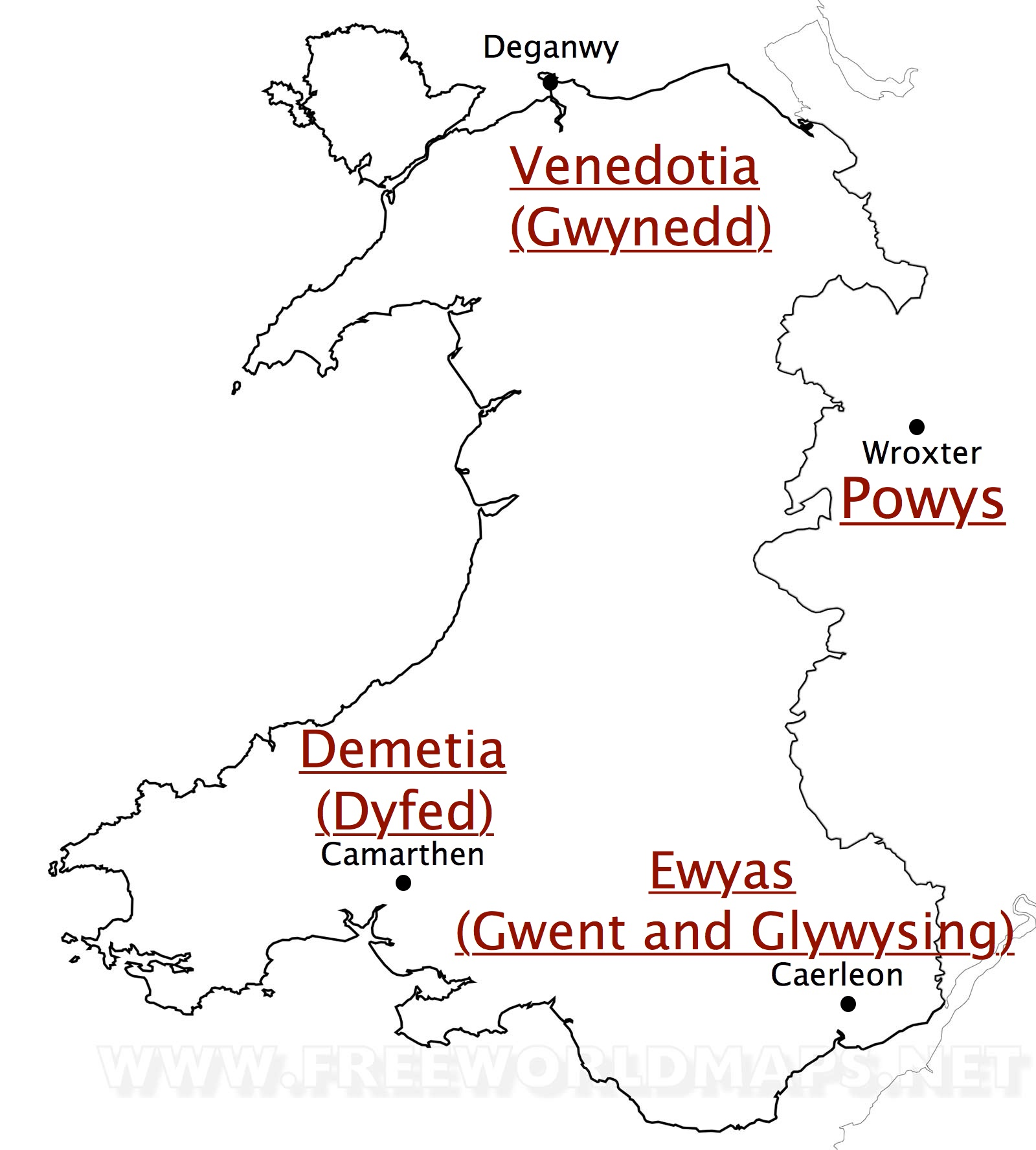 Map of Wales on 400